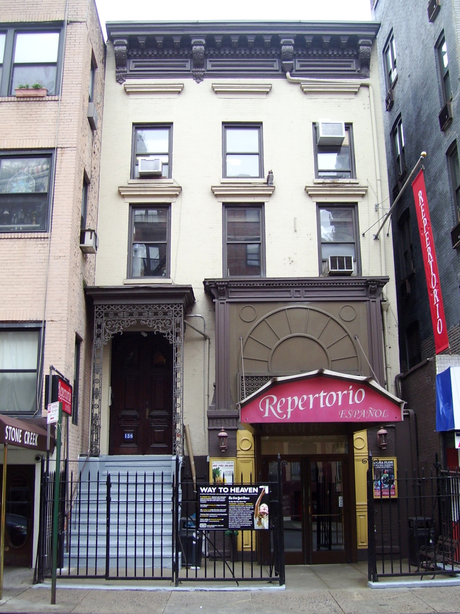 There has been a theatre in the building at 138 East 27th Street, between Third and Lexington Avenues in Manhattan, New York City, since 1915. It was once the Gramercy Arts Theatre, but since 1972 has been the home of Repertorio Espanol. (Sources: WPA Guide to NYC and [1])